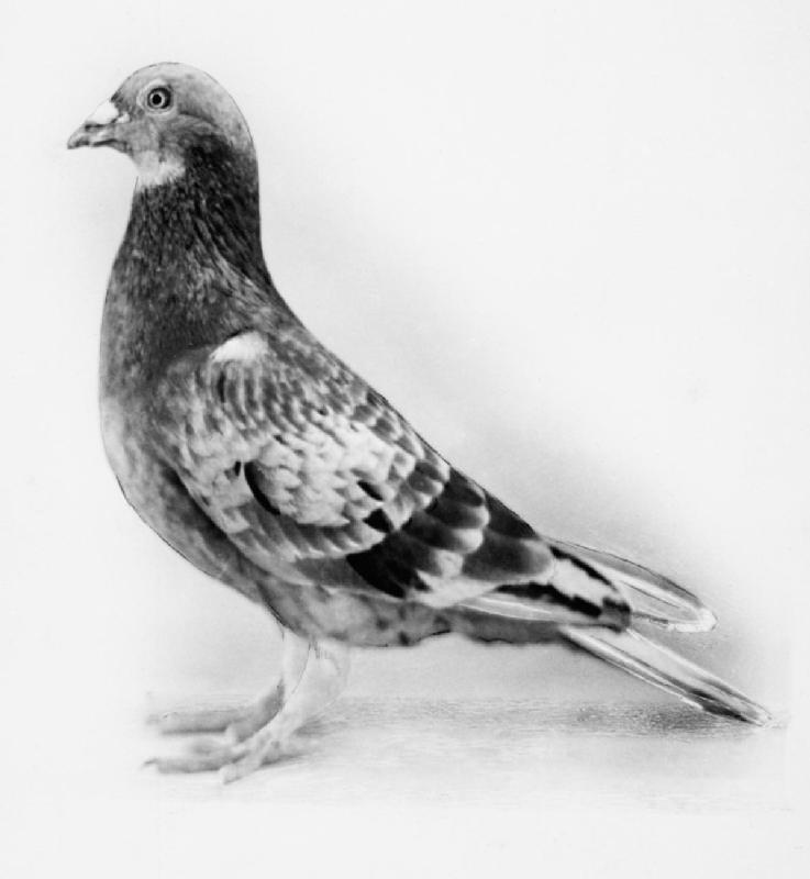 IWM Caption: A portrait of 'Commando', a Dickin medal winning pigeon. Commando was awarded the Dickin Medal in March 1945 “For successfully delivering messages from Agents in Occupied France on three occasions: twice under exceptionally adverse conditions, while serving with the NPS in 1942.”